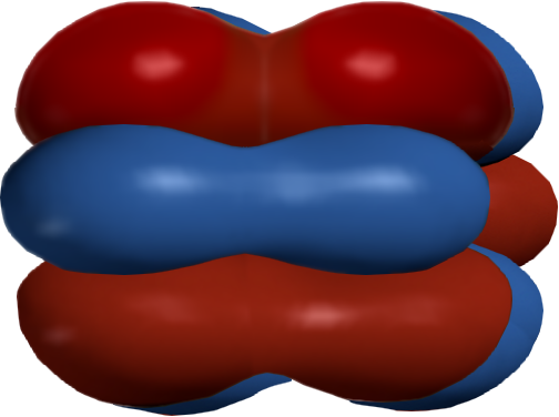 Space-filling model of a phi bond (bonding molecular orbital with φ symmetry)